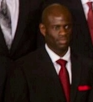 University of Louisville men's basketball assistant coach Kareem Richardson visits the White House with the team following the team's 2013 national championship title.